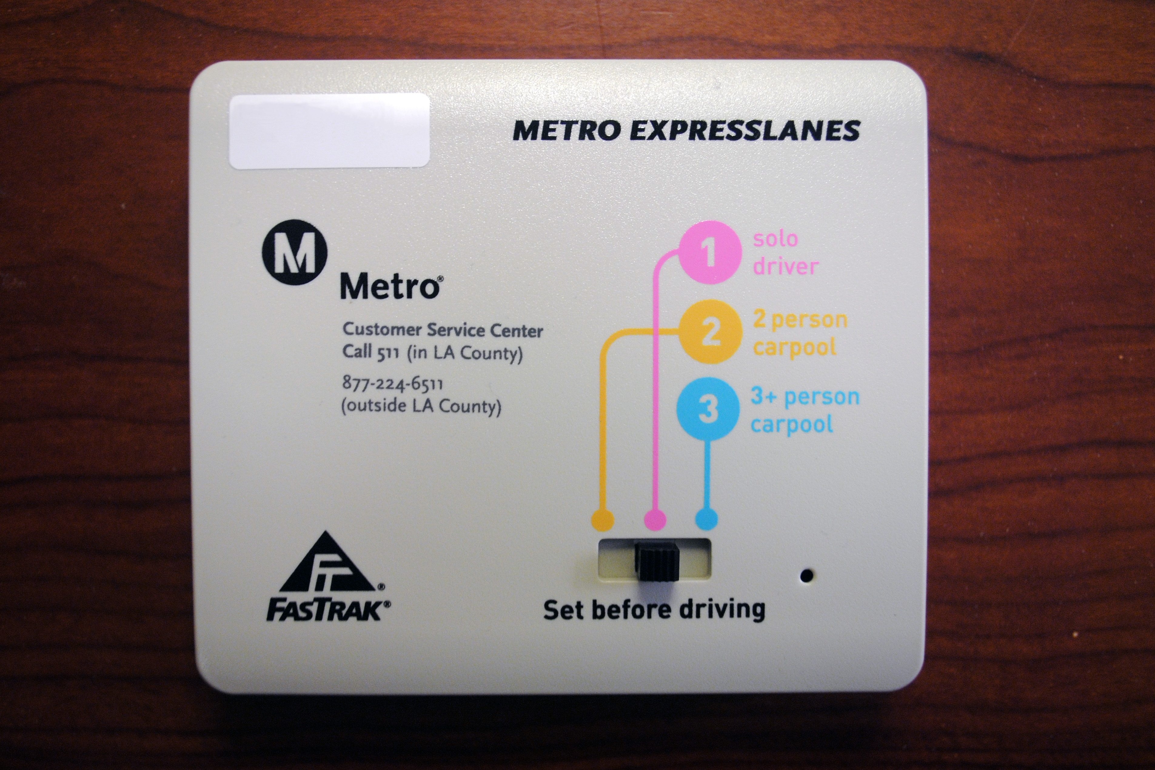 A new "switchable" FasTrak transponder device developed for the Metro ExpressLanes project. Unlike most High occupancy/toll and express toll lanes in the world, the toll lanes in the Metro ExpressLanes system require all drivers, HOV and solo, to carry a transponder. So that HOVs aren't charged a toll, the driver sets the switch on the FasTrak to indicate how many occupants (including the driver) are in the vehicle. This also allows for different HOV limits depending on time; e.g., on the I-10 freeway, during peak hours HOV is considered three or more occupants in the vehicle, while at other times it is two or more. Most other HOT lane systems don't require HOVs to carry transponders, and ask those that do to put their transponder in a mylar bag so it isn't read. There are a few reasons why Metro requires HOVs to carry a transponder, but mostly to allow them the ability to monitor congestion in more detail, tracking solo drivers as well as HOVs.